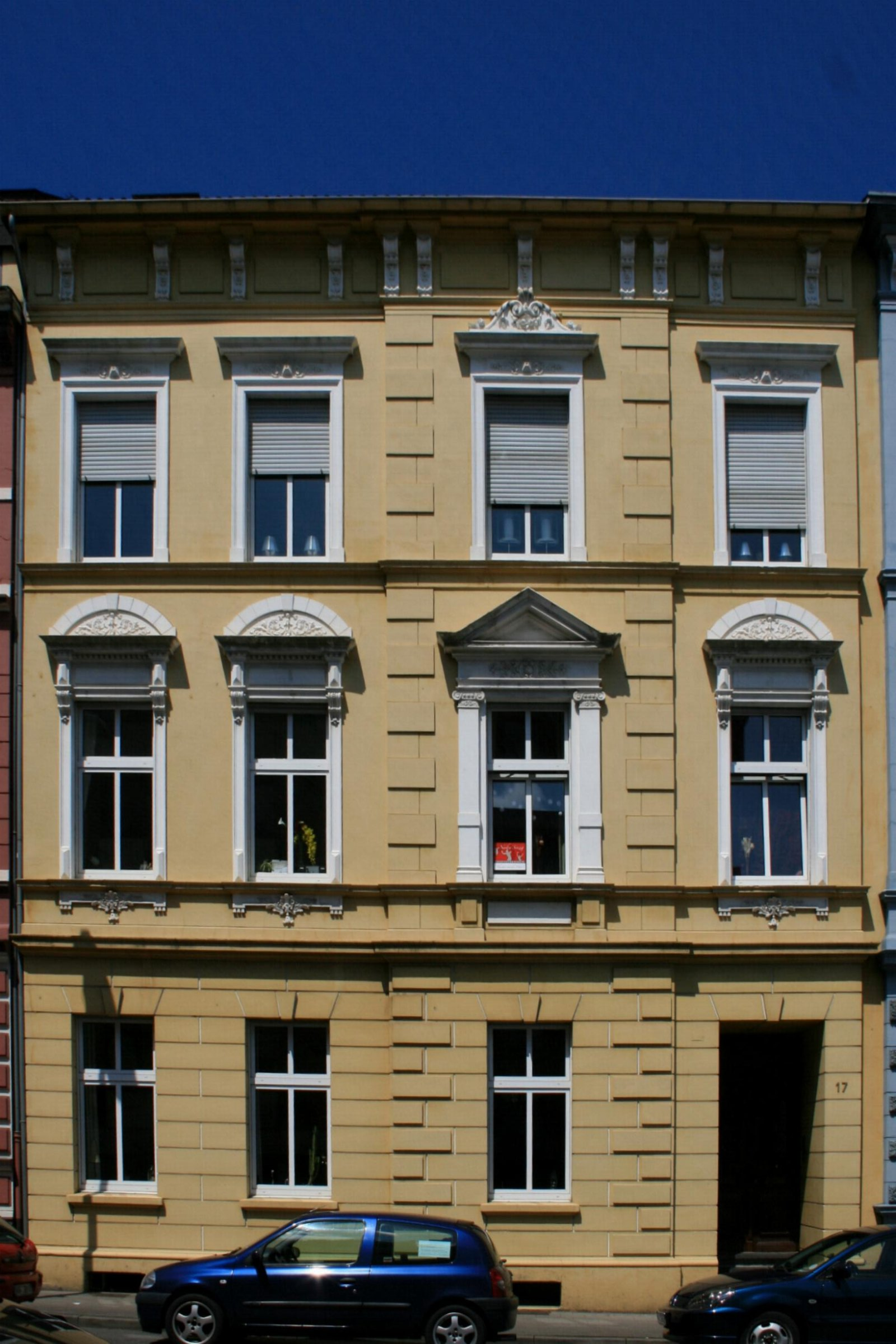 Cultural heritage monument No. F 003 in Mönchengladbach